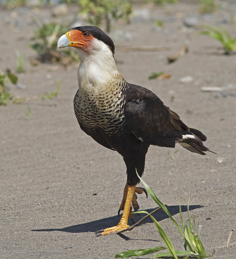 Crested Caracara photo taken on the Tarcoles River, Costa Rica.